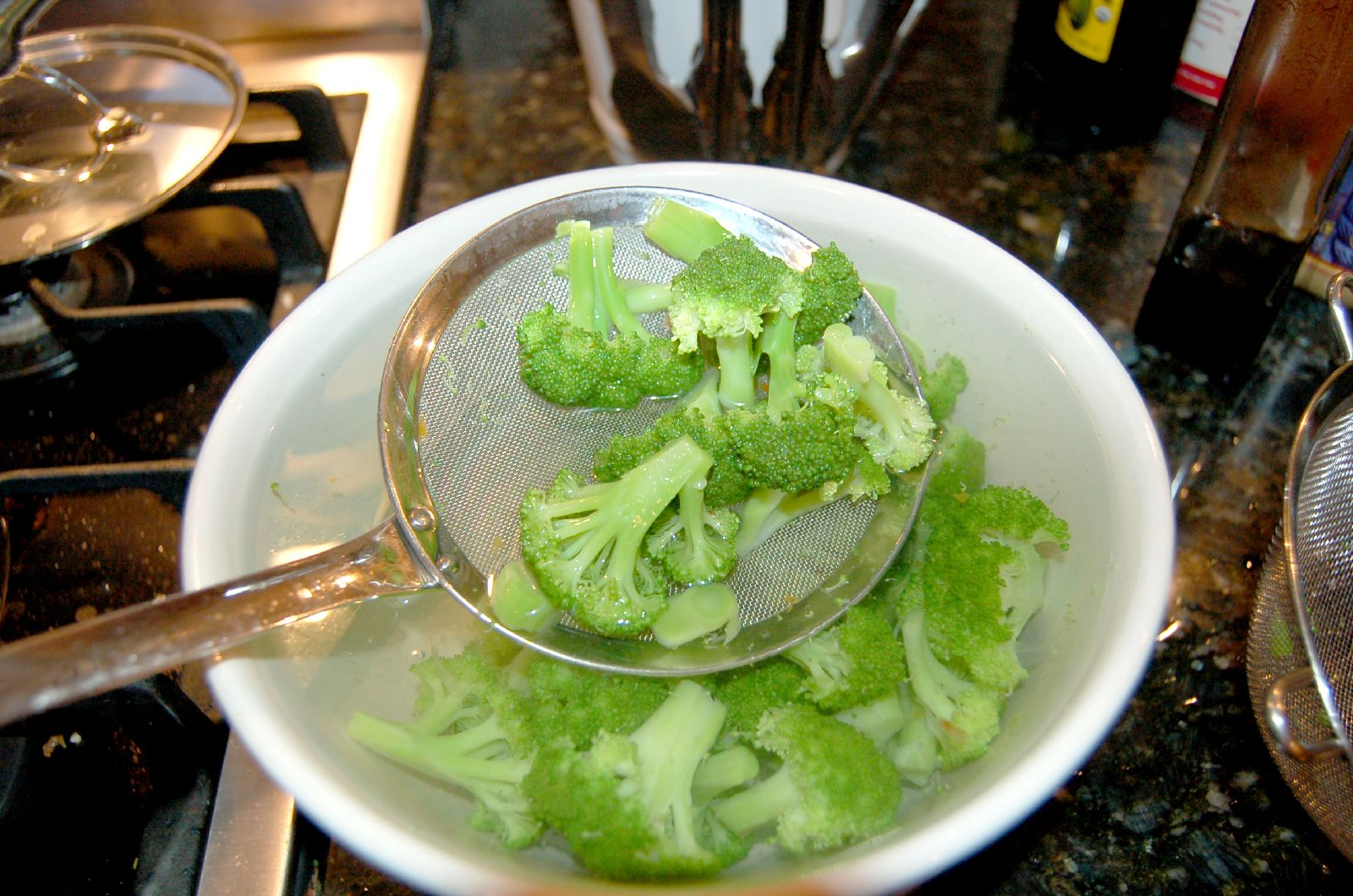 Using a strainer, remove the vegetables from the boiling water and transfer to a bowl of ice water. This will halt the cooking process (thus preserving the color, texture and flavor). This step is crucial!